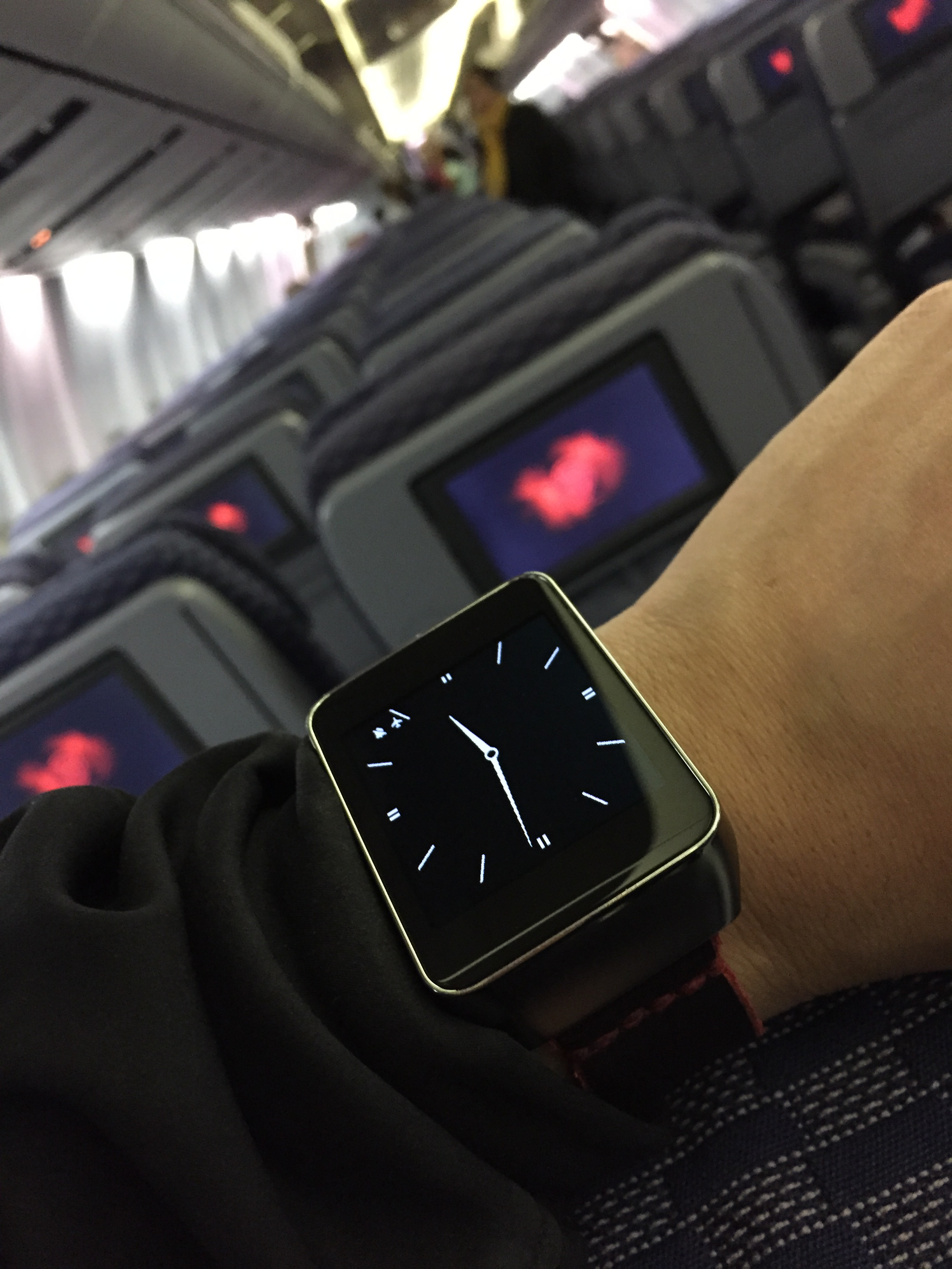 A Samsung Galaxy Gear Live Android Wear watch in airplane mode. SEE MORE: Up in the Air: Will Wearable Tech Cause Travel Confusion? What you need to know about traveling with your shiny new wearable through airport security and what to do with it on the airplane.